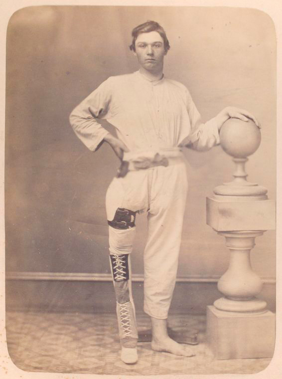 Digital ID: 1150118. [Clothed man stands facing camera, shortened right leg encased in brace, with his right foot resting on an artificial foot. His left arm rests on a decorative column.]. United States Sanitary Commission -- Creator. Johnson & D'utassy -- Photographer. 1861-1872 Notes: Same individual as no. 75, Box 1082. Source: United States Sanitary Commission records, 1861-1872, bulk (1861-1865). / Photographs, prints and drawings / Photographs and drawings (more info) Repository: The New York Public Library. Manuscripts and Archives Division. See more information about this image and others at NYPL Digital Gallery. Persistent URL: Rights Info: No known copyright restrictions; may be subject to third party rights (for more information, click here)